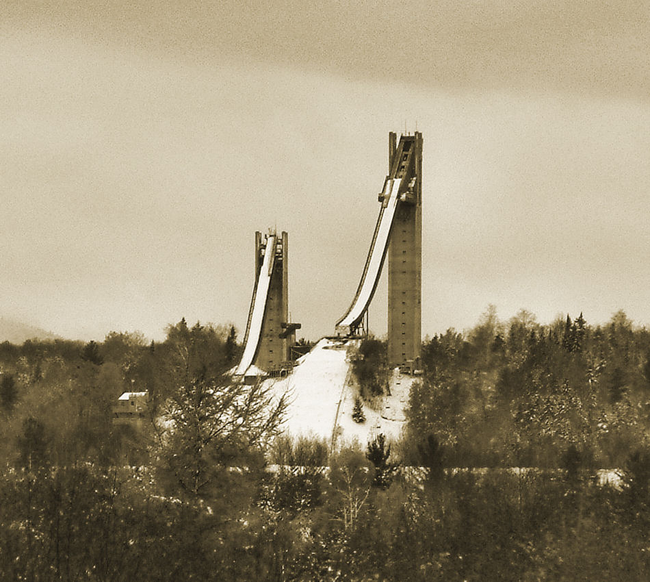 Pic of the 90 and 110m ski jump in Lake Placid, taken in October 05